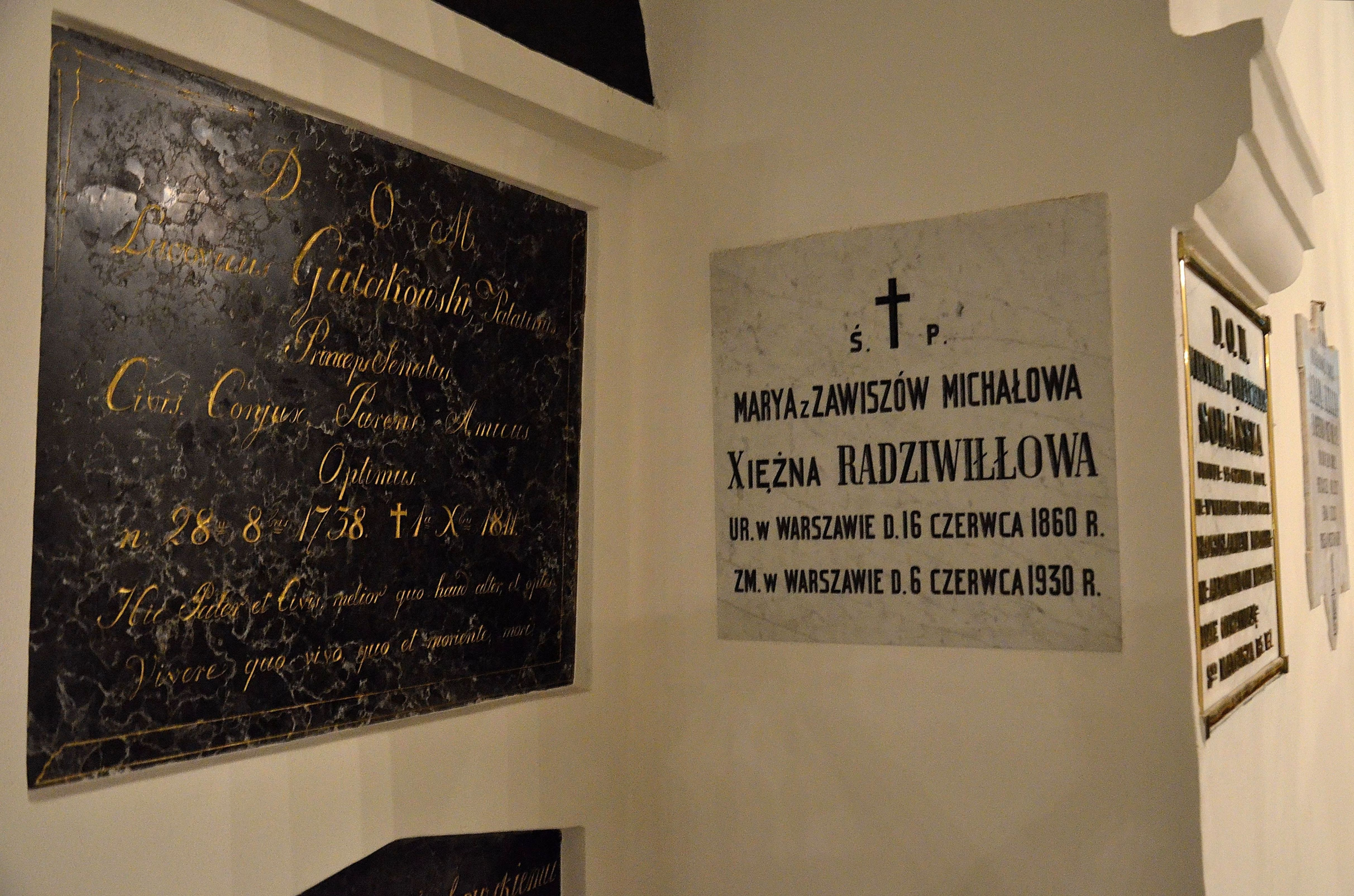 Epitaph of Maria Radziwiłł in the lower church of the Basilica of the Holy Cross in Warsaw